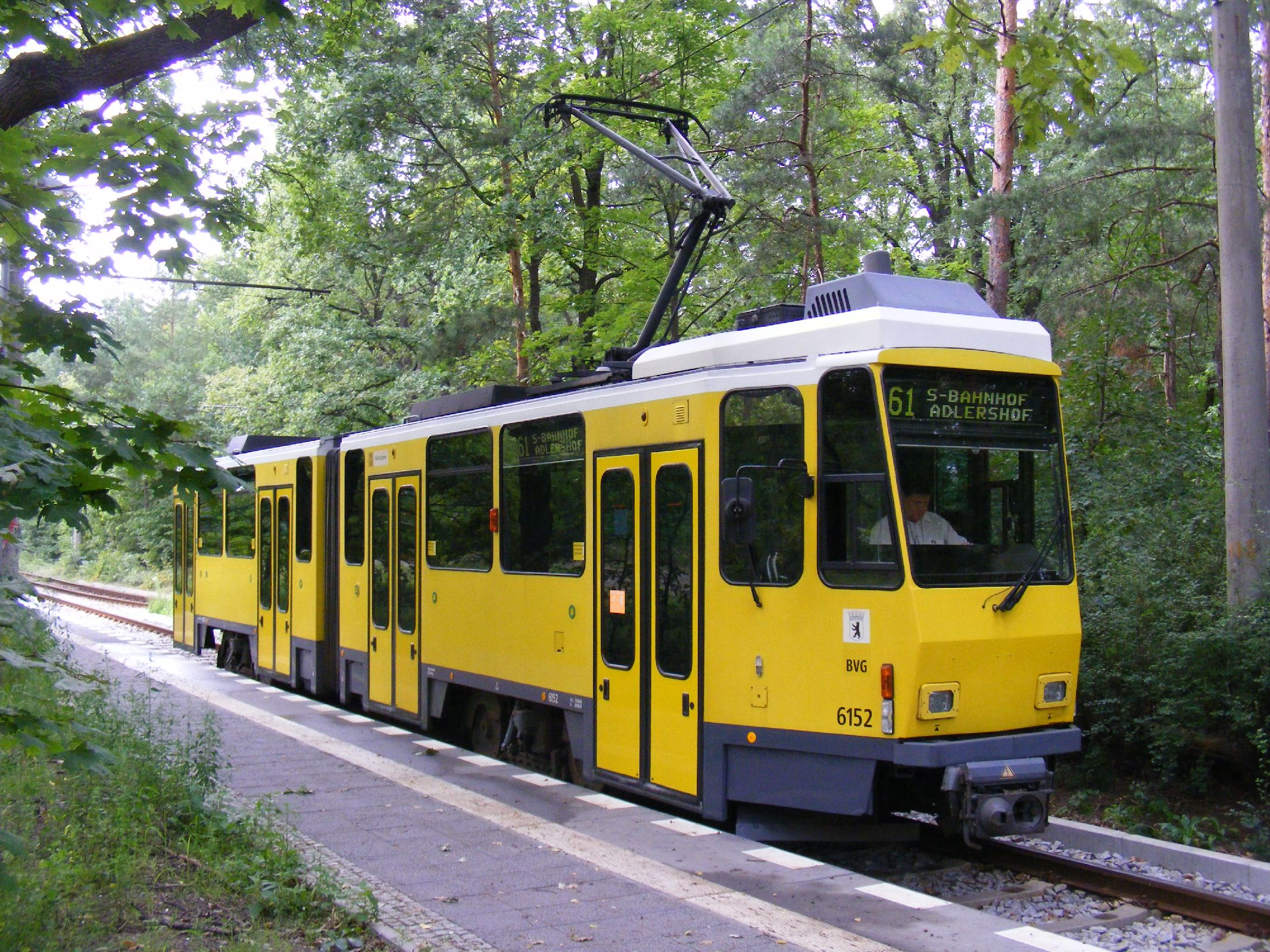 6152 at Rahnsdorf terminus of route 61. a 1986 KT4D, ex-9500, ex 219 500.Route 61 runs between S-Bhf. Adlershof and here, Rahnsdorf Waldschänke.